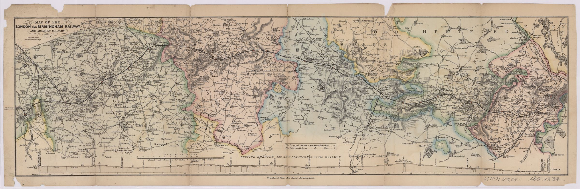 London & Birmingham railway plan of the line and adjacent country by C. F. Cheffins, 1839.